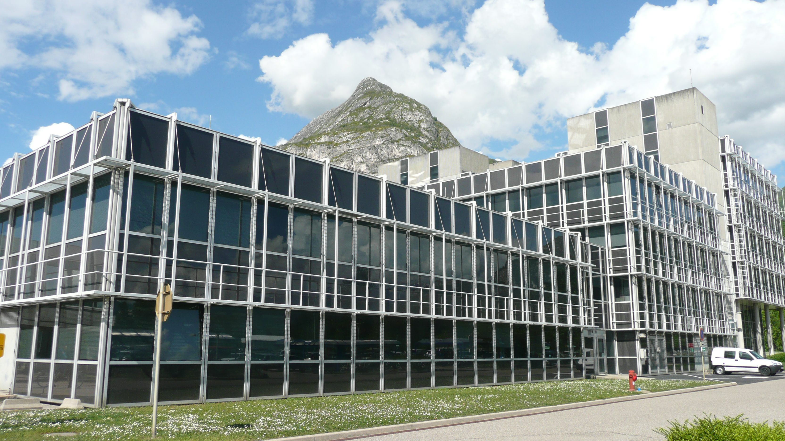 European Synchrotron Radiation Facility (ESRF) in Grenoble